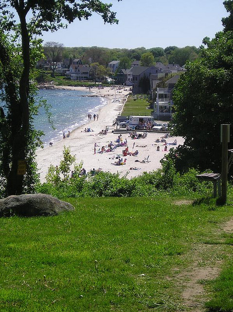 View of McCook Point beach and Crescent Beach in the village of Niantic, the town of East Lyme.